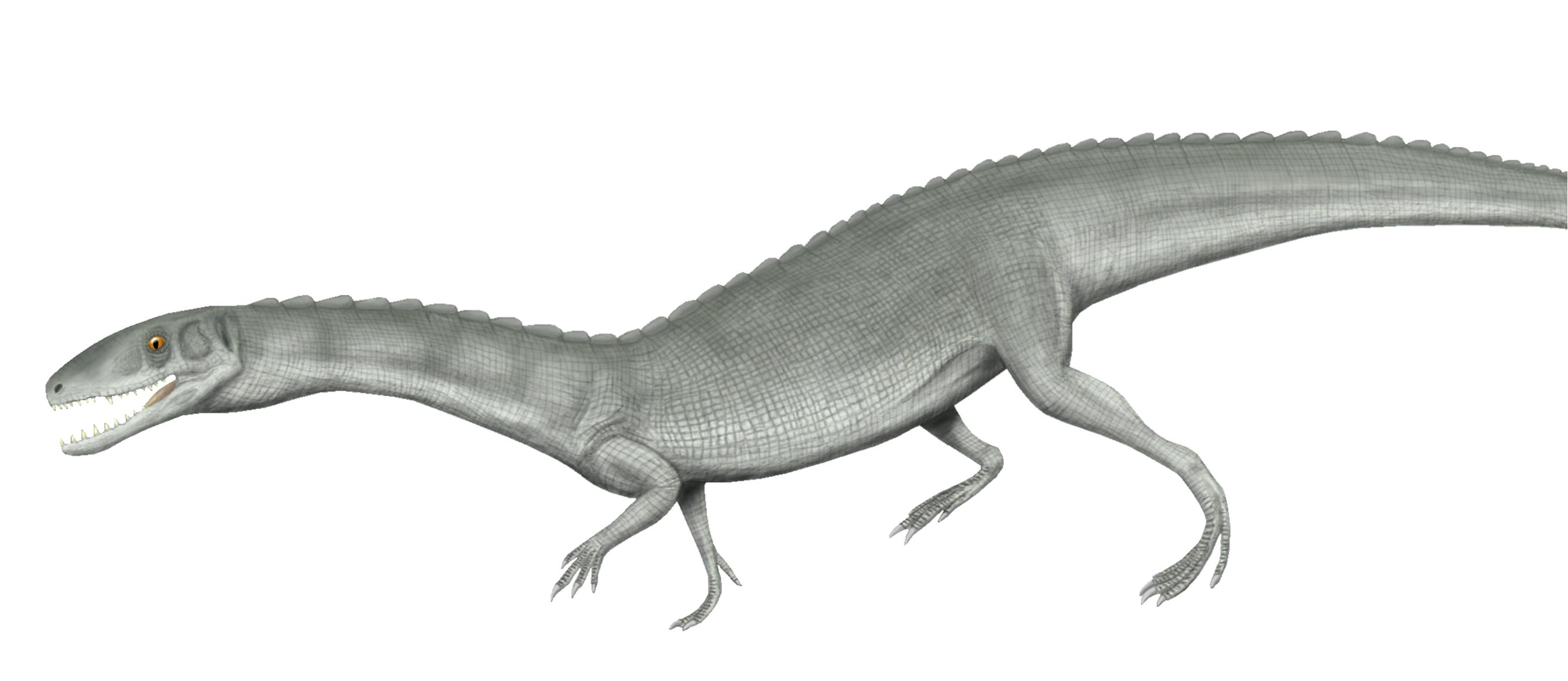 Life restoration of Yarasuchus deccanensis. Based on figure 8 of "A new rauisuchian archosaur from the Middle Triassic of India" by Kasturi Sen Palaeontology 48(1):185-196.